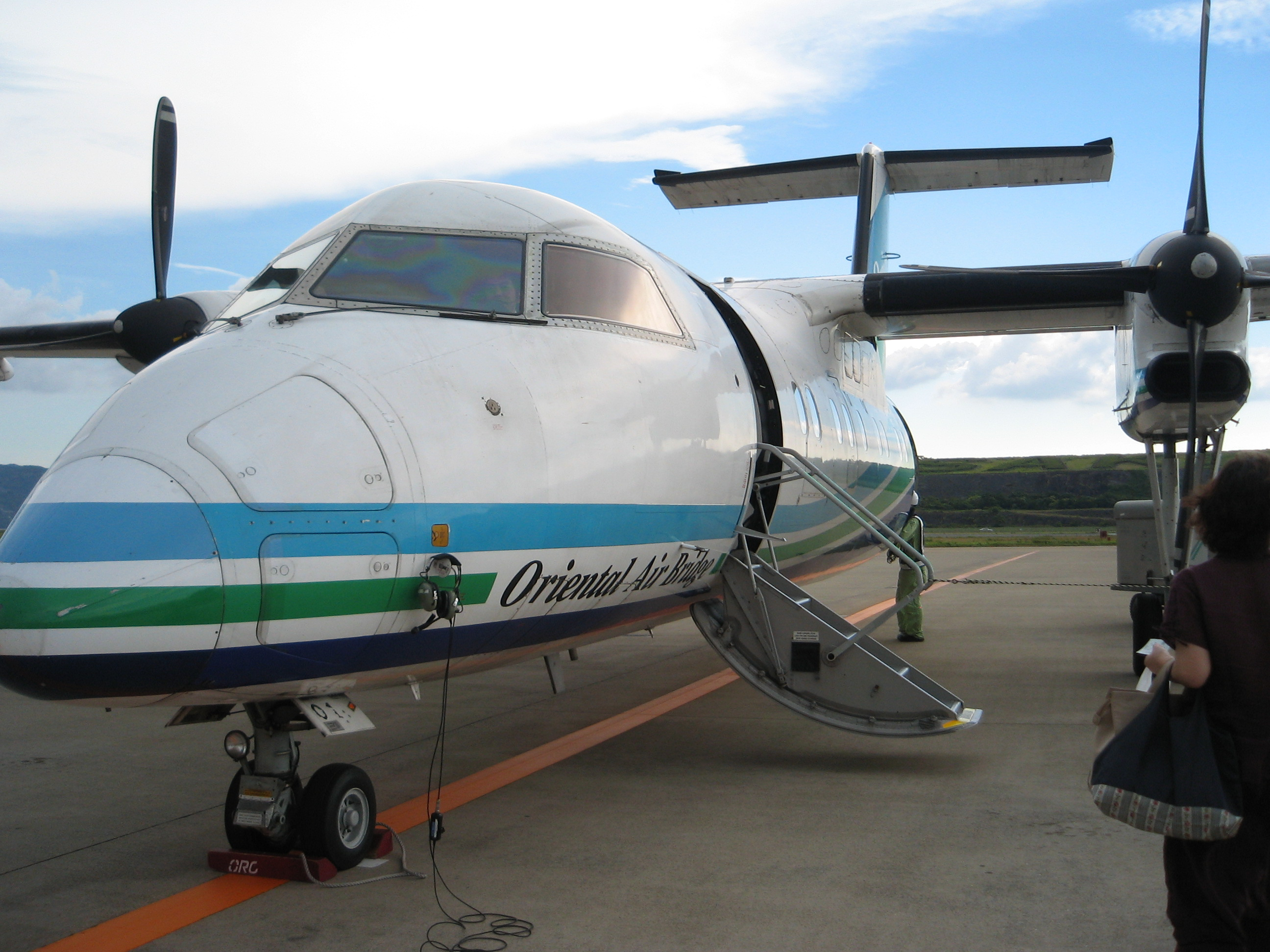 One of the 2 Oriental Air Bridge Dash 8 aircraft at Nagasaki Airport